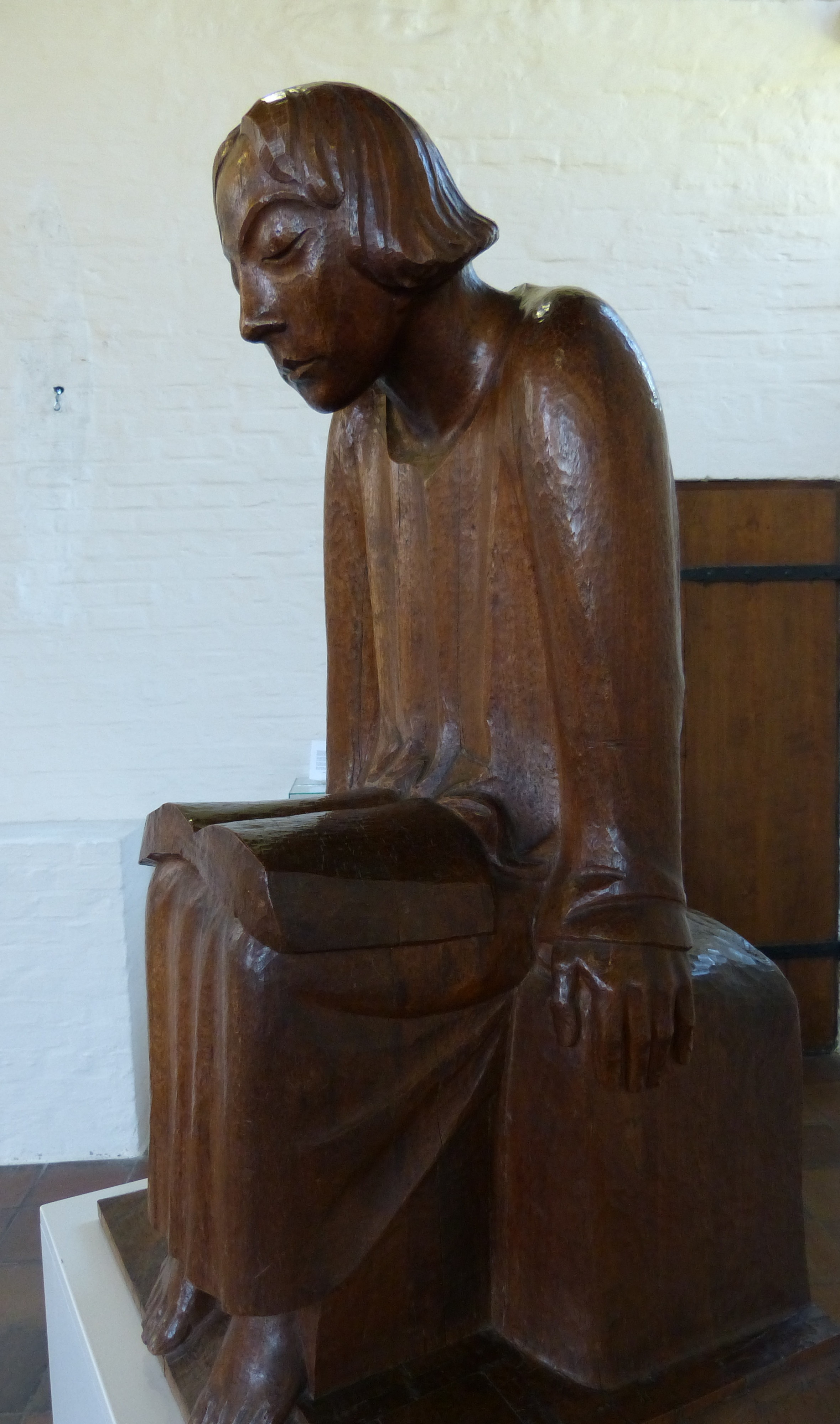 Güstrow ( Mecklenburg-Vorpommern ). Saint Gertrud's chapel - Barlach collection: "Monastery scholar, reading", wooden sculpture ( 1930 )